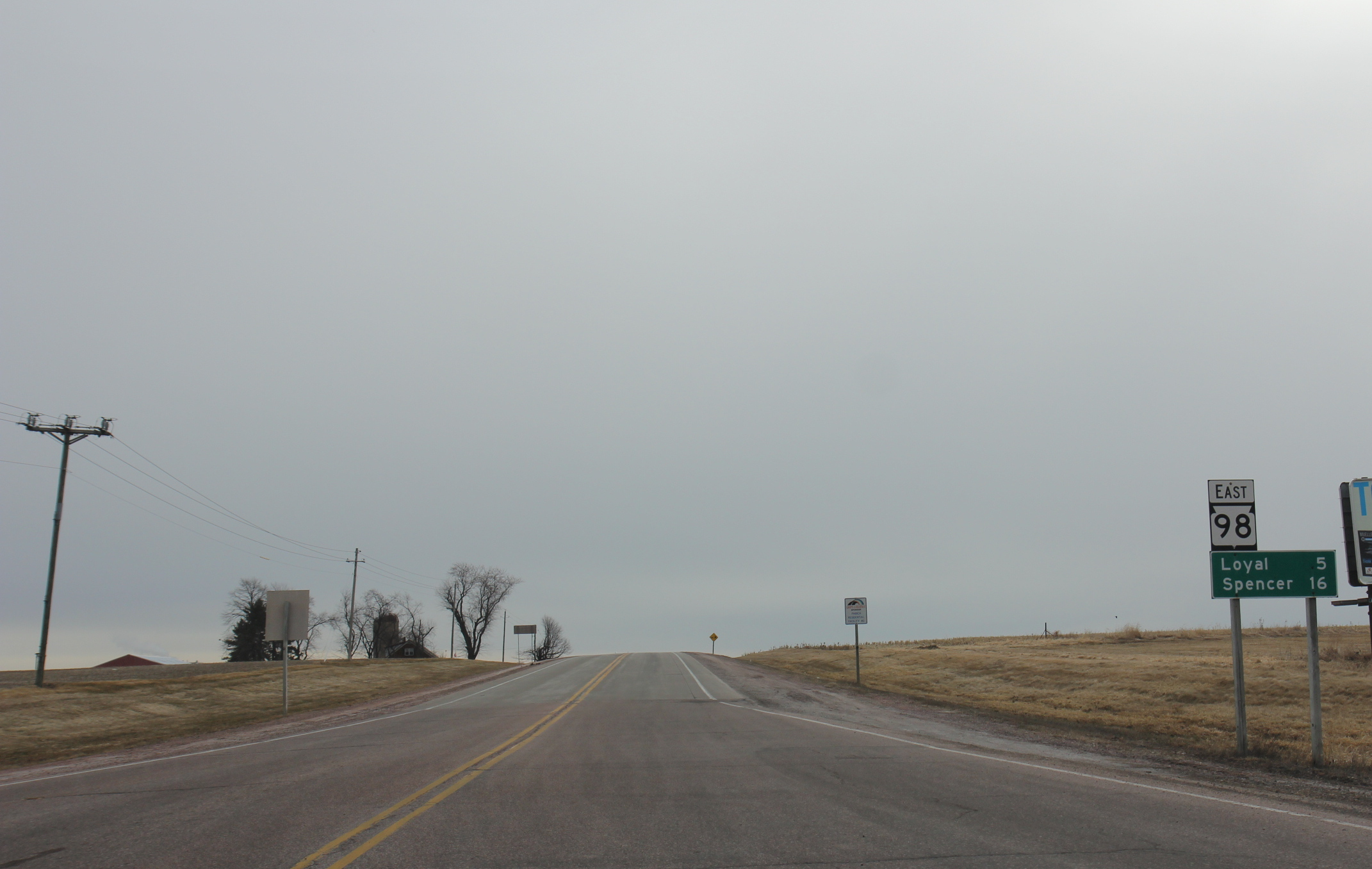 Looking West from the east terminus of Wisconsin Highway 98.